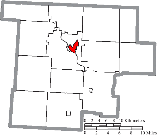 Map of the municipal and township boundaries of Morgan County, Ohio, United States, as of the 2000 census, with the location of the village of McConnelsville highlighted. Township borders are shown only in unincorporated areas in order to differentiate incorporated and unincorporated areas more clearly.